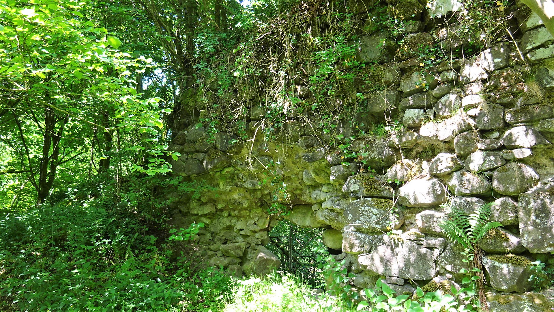 Duchal Castle, courtyard wall, Burnbank Water side.